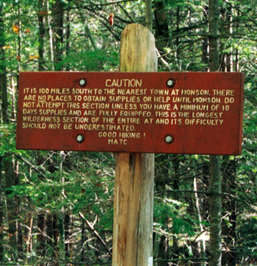 The image shows a sign on the Appalachian Trail at the northern trailhead of the 100-Mile Wilderness giving the following warning: "CAUTION. IT IS 100 MILES SOUTH TO THE NEAREST TOWN AT MONSON. THERE ARE NO PLACES TO OBTAIN SUPPLIES OR HELP UNTIL MONSON. DO NOT ATTEMPT THIS SECTION UNLESS YOU HAVE A MINIMUM OF 10 DAYS SUPPLIES AND ARE FULLY EQUIPPED. THIS IS THE LONGEST WILDERNESS SECTION OF THE ENTIRE AT AND ITS DIFFICULTY SHOULD NOT BE UNDERESTIMATED. GOOD HIKING! MATC"